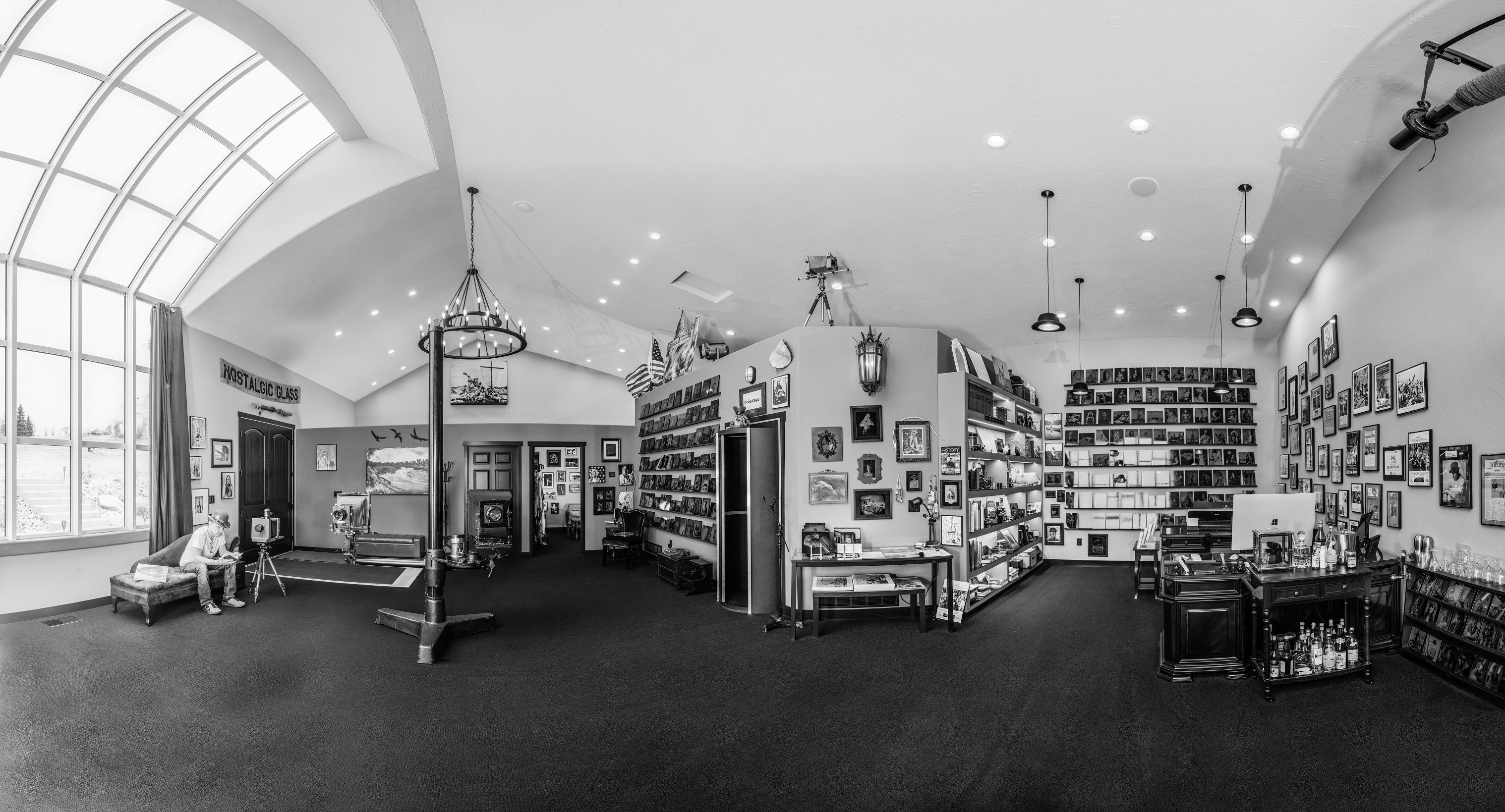 Nostalgic Glass Wet Plate Natural Light Studio, Shane Balkowitsch (Ambrotypist), 2703 Big Sky Circle, Bismarck, North Dakota, Panoramic of 60 images stitched together by Tom Wirtz. Shane Balkowitsch pictured near window.